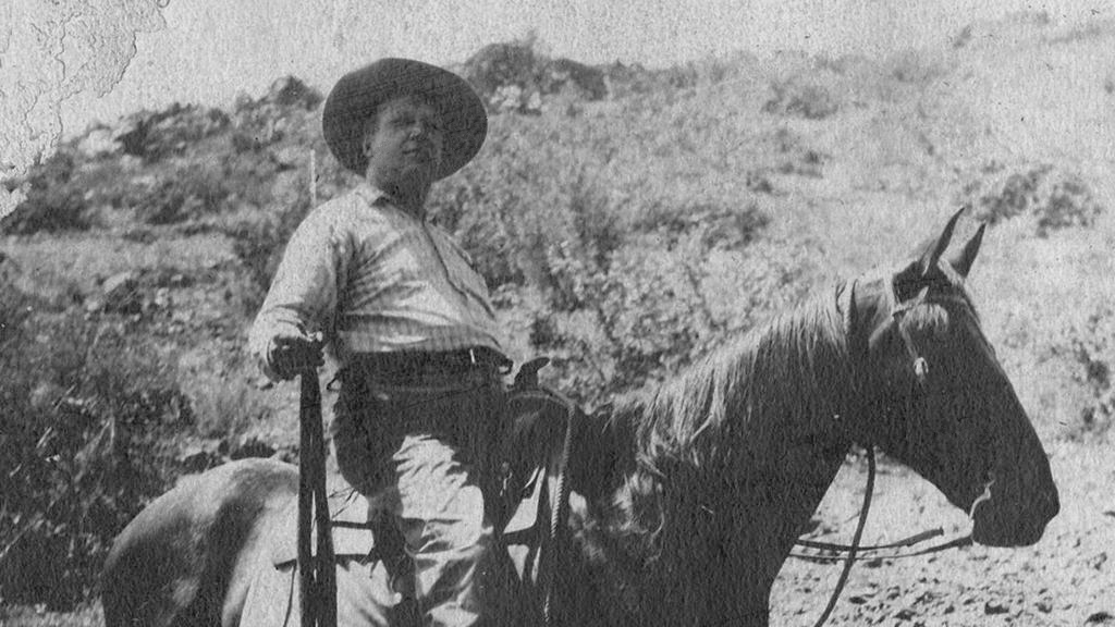 Issac Taft Stoddard, circa 1900, in Stoddard, Arizona